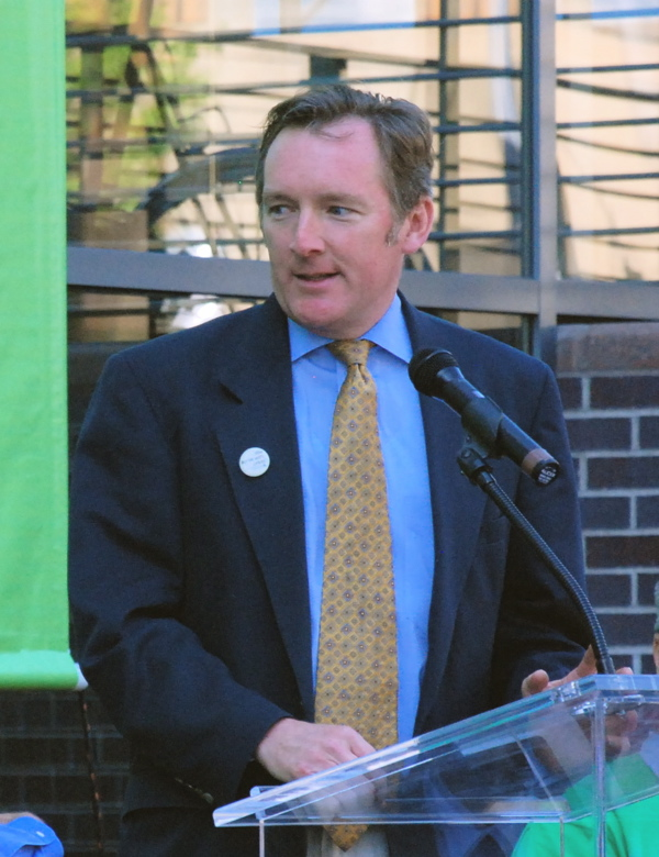 David Bragdon, president of Metro (2003–10), at the opening of the MAX Green Line light rail line in Portland, Oregon, in 2009.